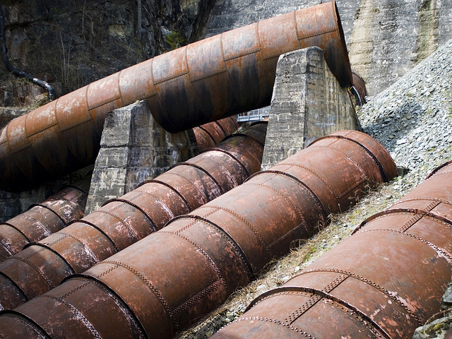 Old penstocks behind the Stave Falls power station, after its upgrade in 2000. License on Flickr (2011-06-25): CC-BY-SA-2.0 Flickr tags: Canada, British, Columbia, BC, Ruskin, Stave, Fall, Dam